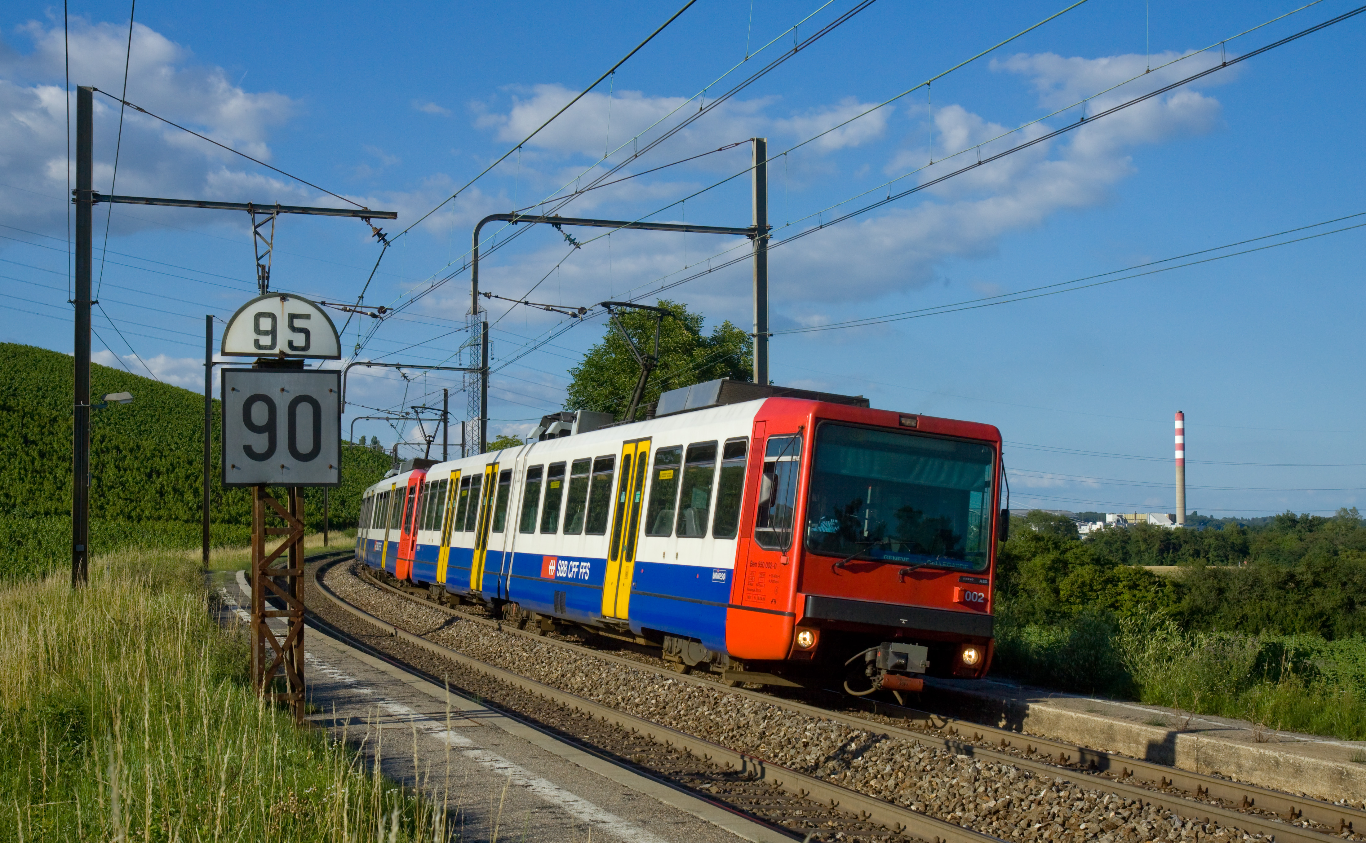 Two SBB Bem 550 dual-mode multiple units at Russin, Switzerland. The Bem 550 run on 1500V DC and have an auxiliary diesel engine for shunting. Because they are allowed to run in France, they are used for through trains from Geneva (CH) to Bellegarde (F).